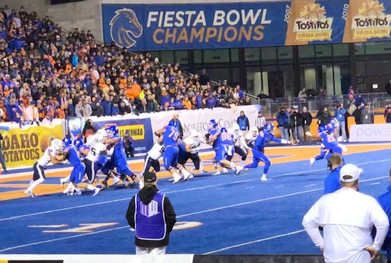 Boise State offense about to score a touchdown during their game vs Utah State on November 24, 2018 at Albertsons Stadium in Boise, Idaho.